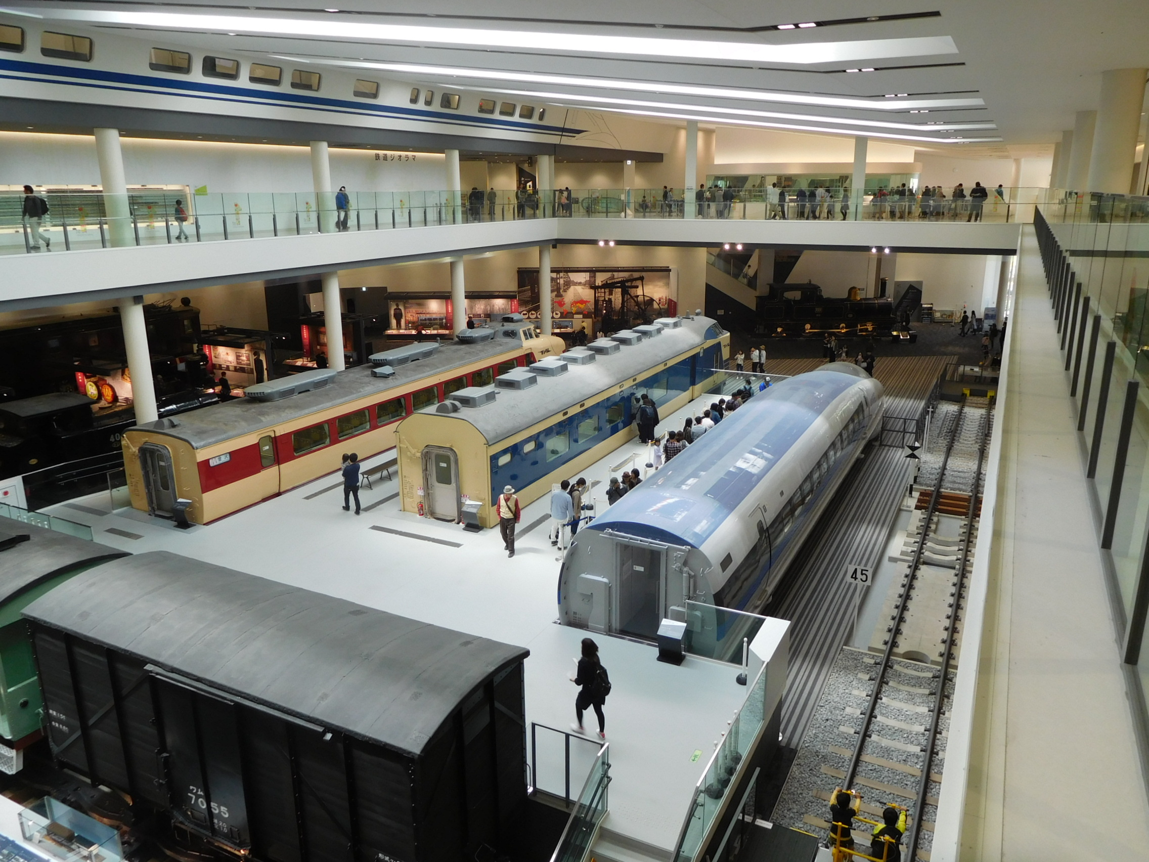 Main building of the Kyoto Railway Museum.